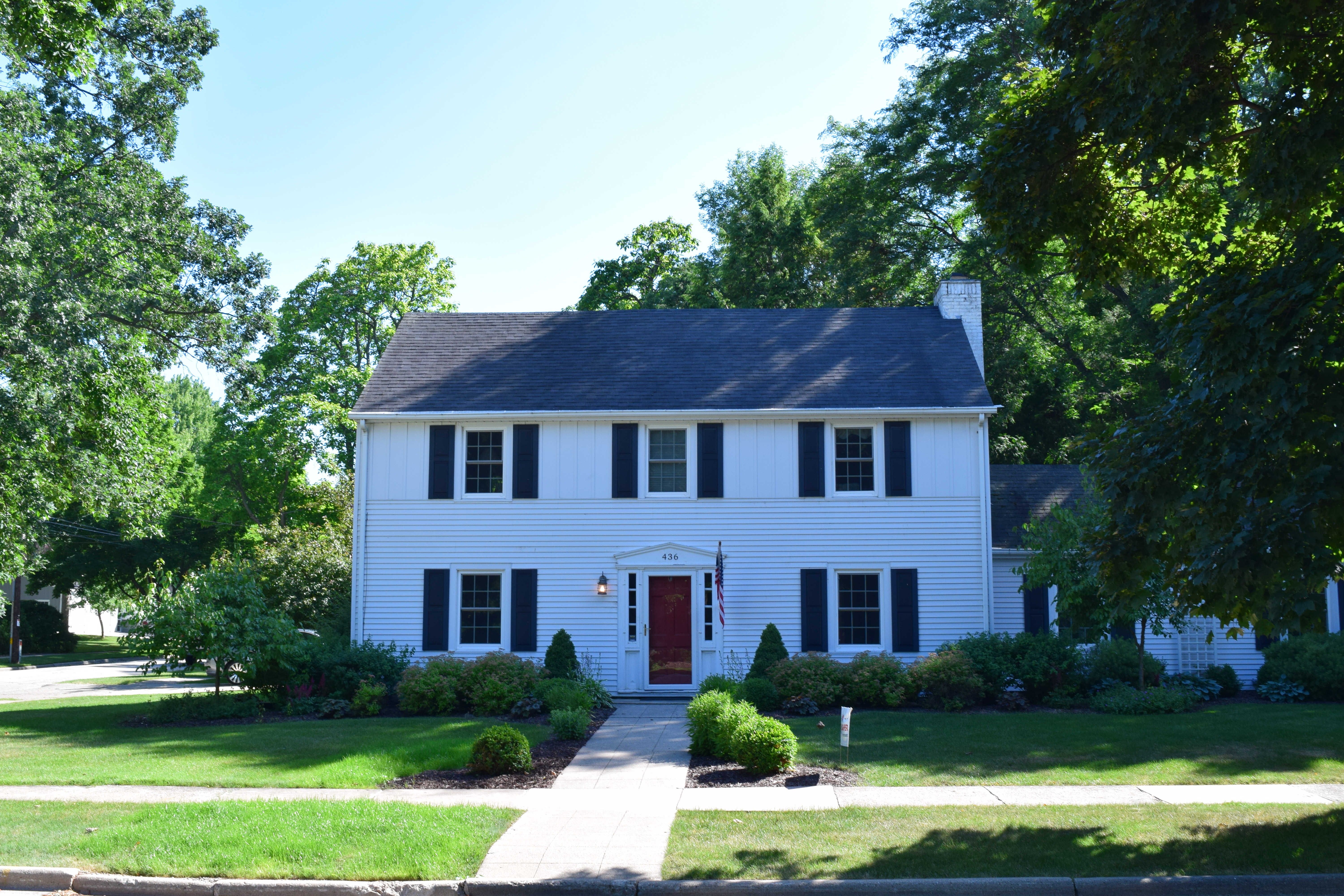 House at 436 Randall Avenue in the Randall Avenue Historic District in De Pere, Wisconsin.